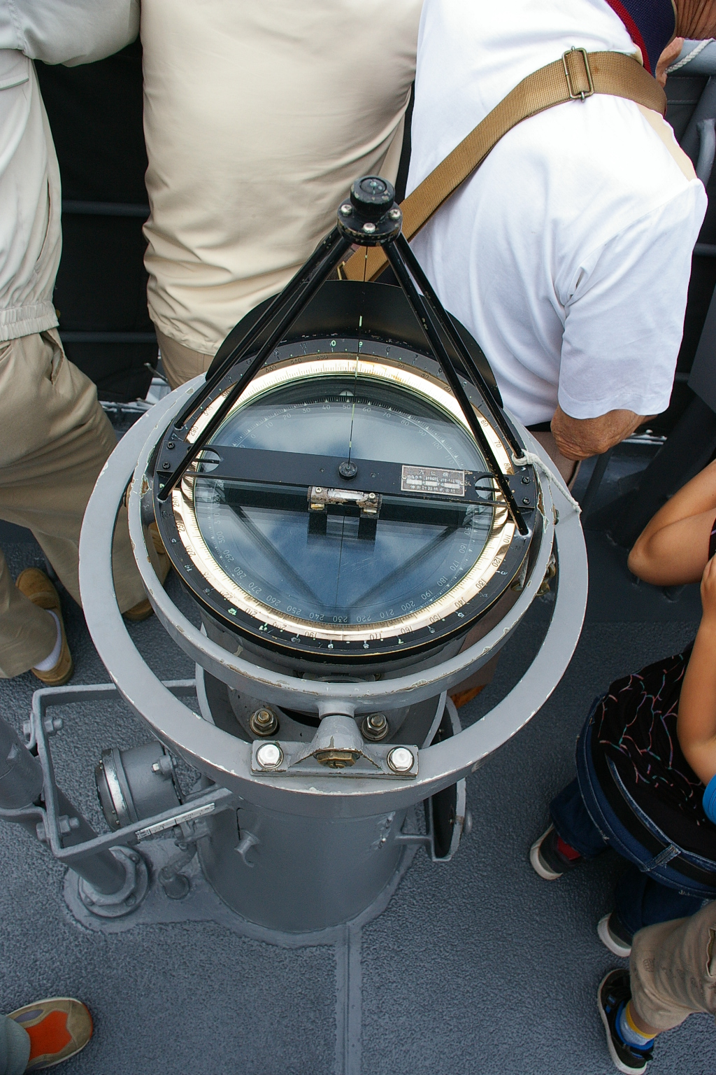 JMSDF DE-227 Yuubari, Ship compass.